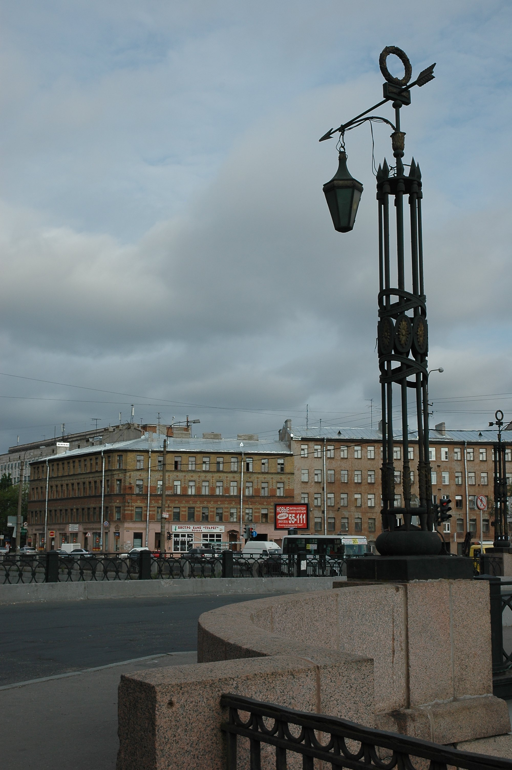 Krasnooktiabskii bridge across Obvodny Canal St Petersburg, lantern